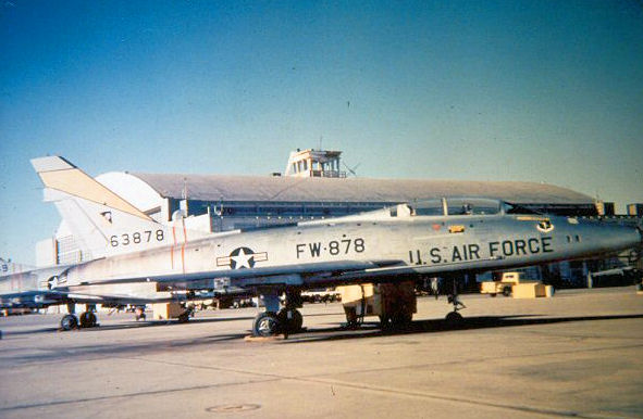 524th Tactical Fighter Squadron - North American F-100F-10-NA Super Sabre - 56-3878